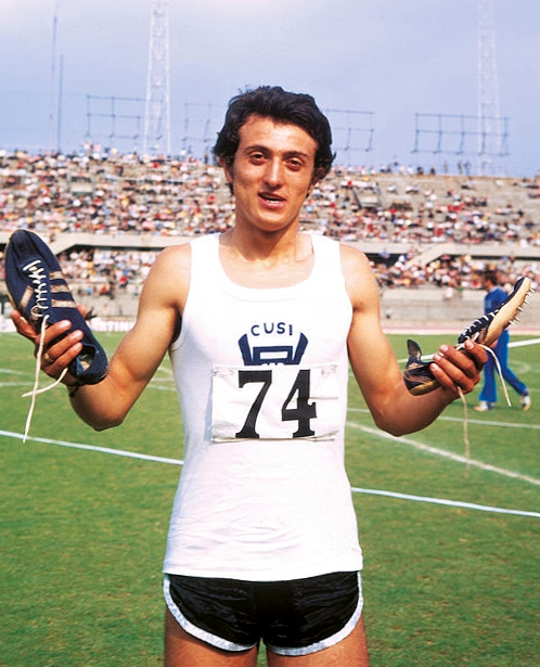 The Italian sprinter Pietro Mennea poses in front of the photographers with his shoes in his hands. At the Olympics games he won a bronze medal in the 200 metres race. Munich, summer 1972.